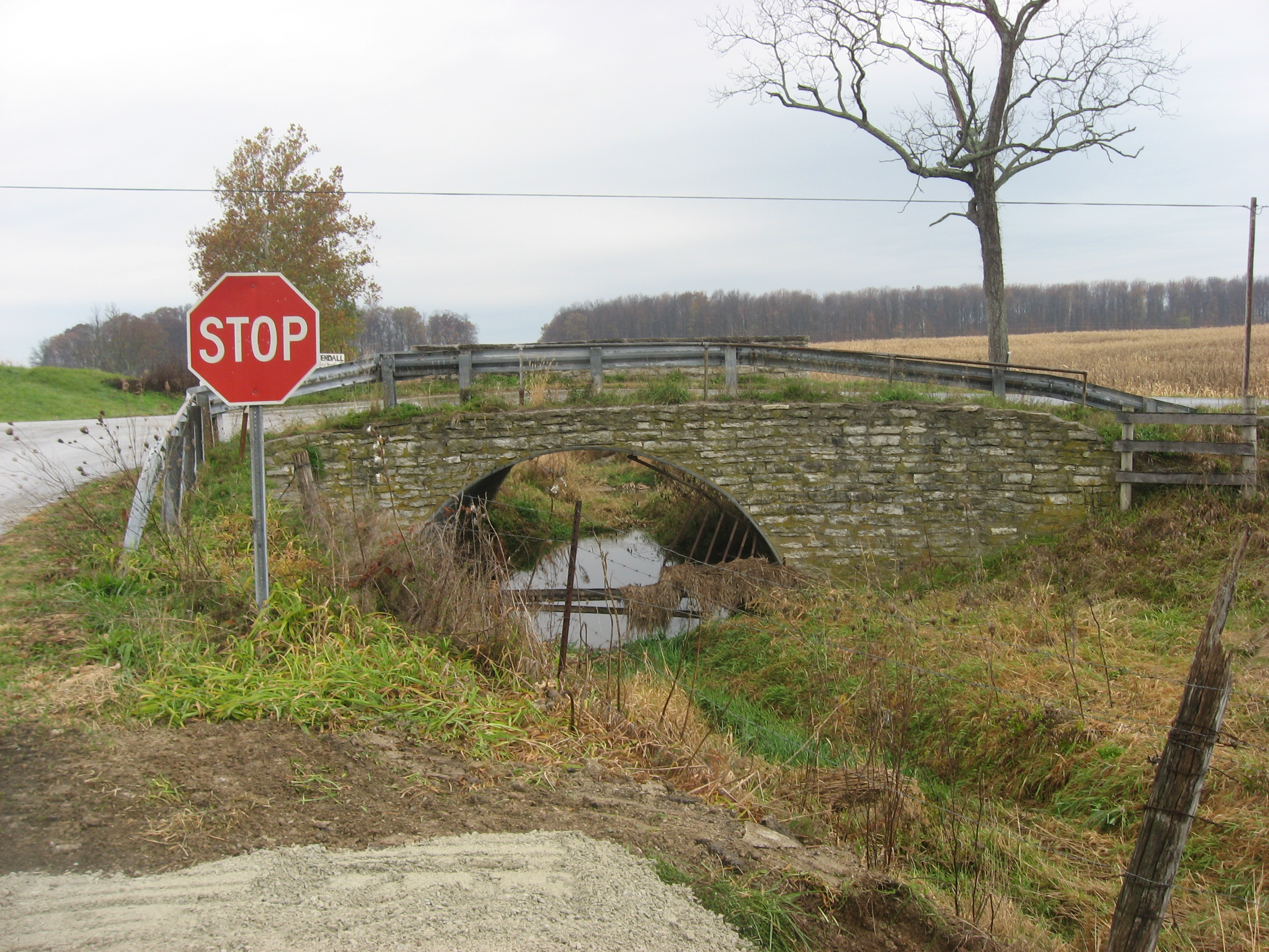 Eastern side of the stone arch bridge that carries the old Michigan Road over Little Otter Creek southwest of Napoleon in Jackson Township, Ripley County, Indiana, United States.